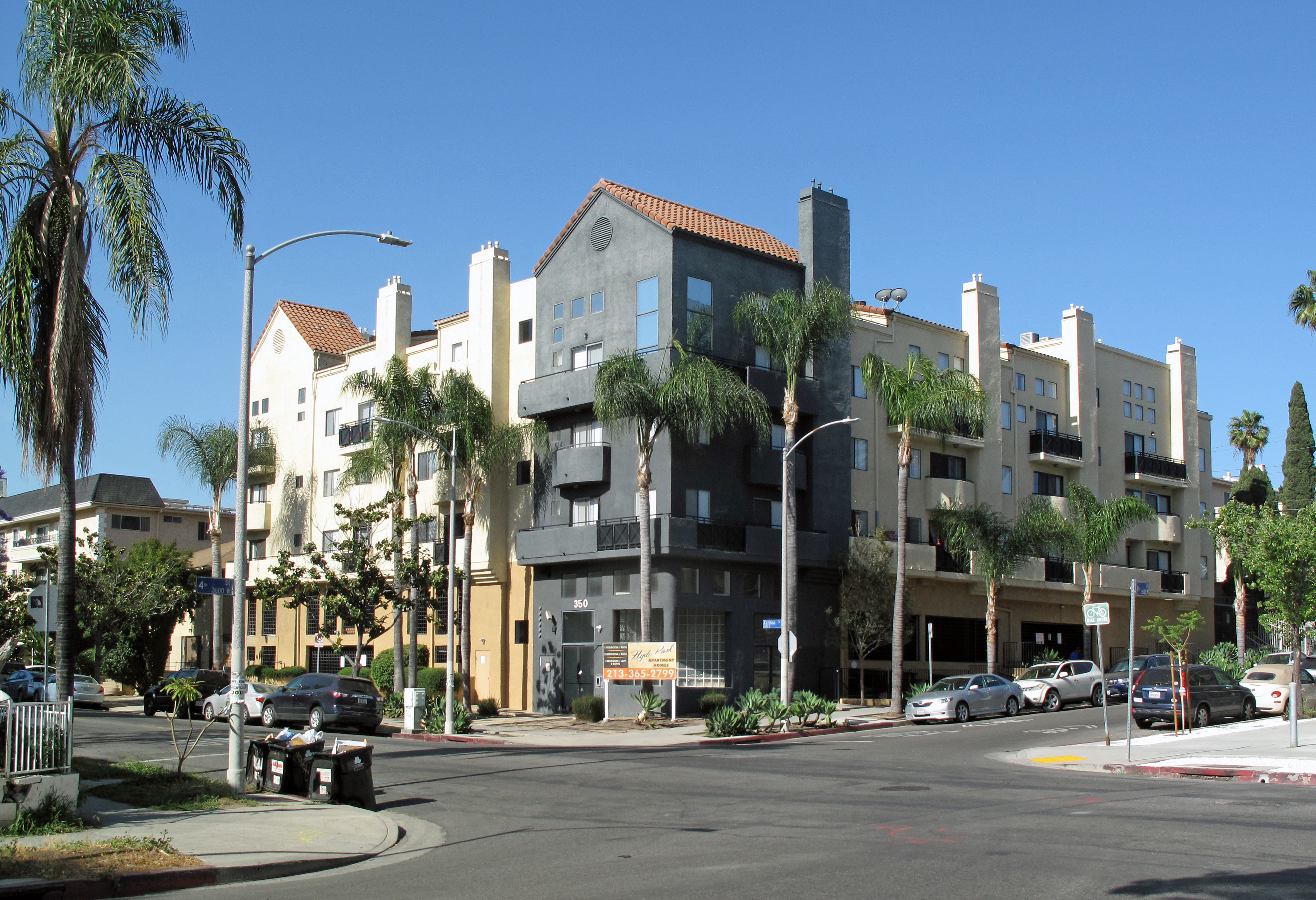 The residential neighborhood at 4th and Catalina, Wilshire Center, Los Angeles, on a beautiful clear day.